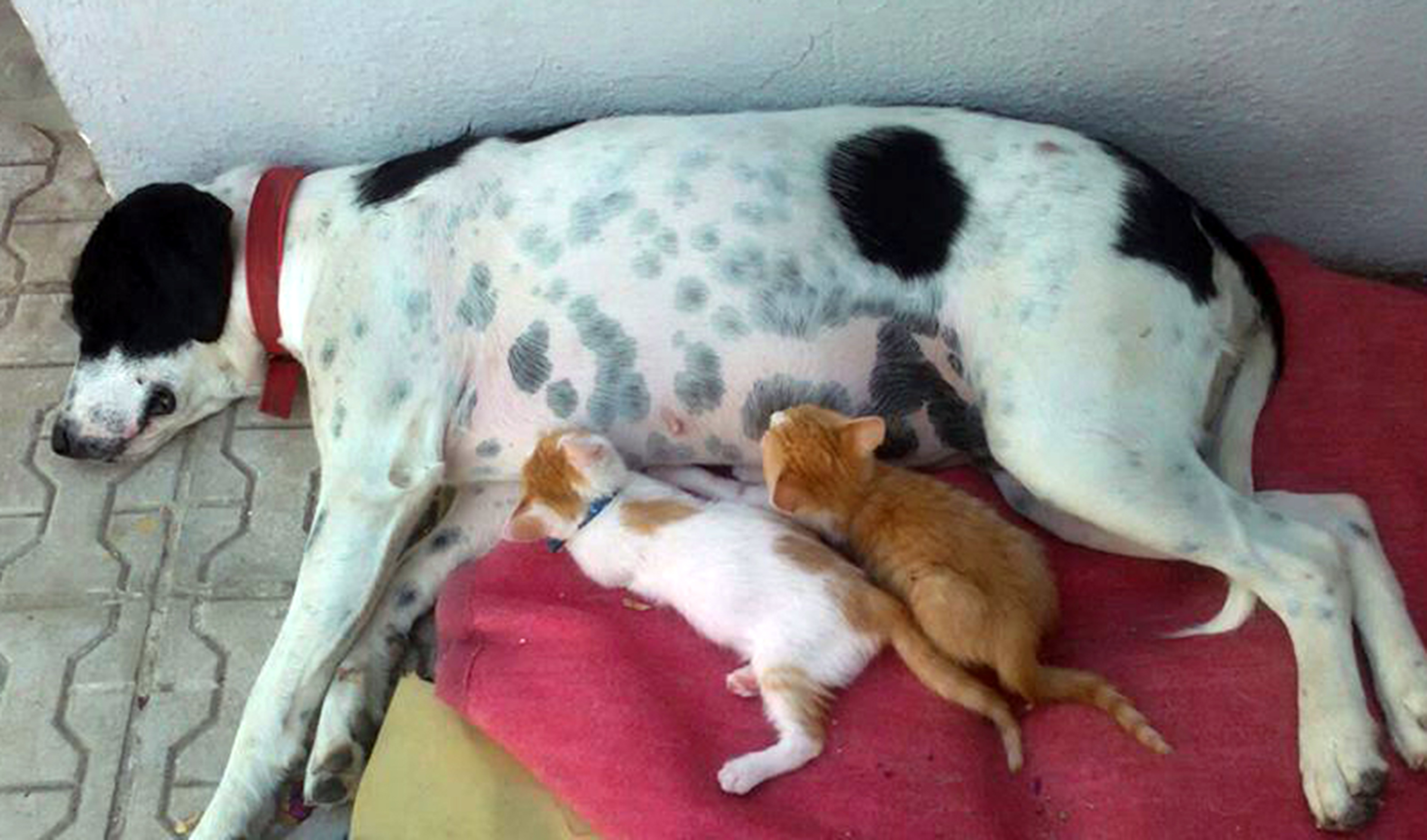 Mother dog breast feeding two kittens